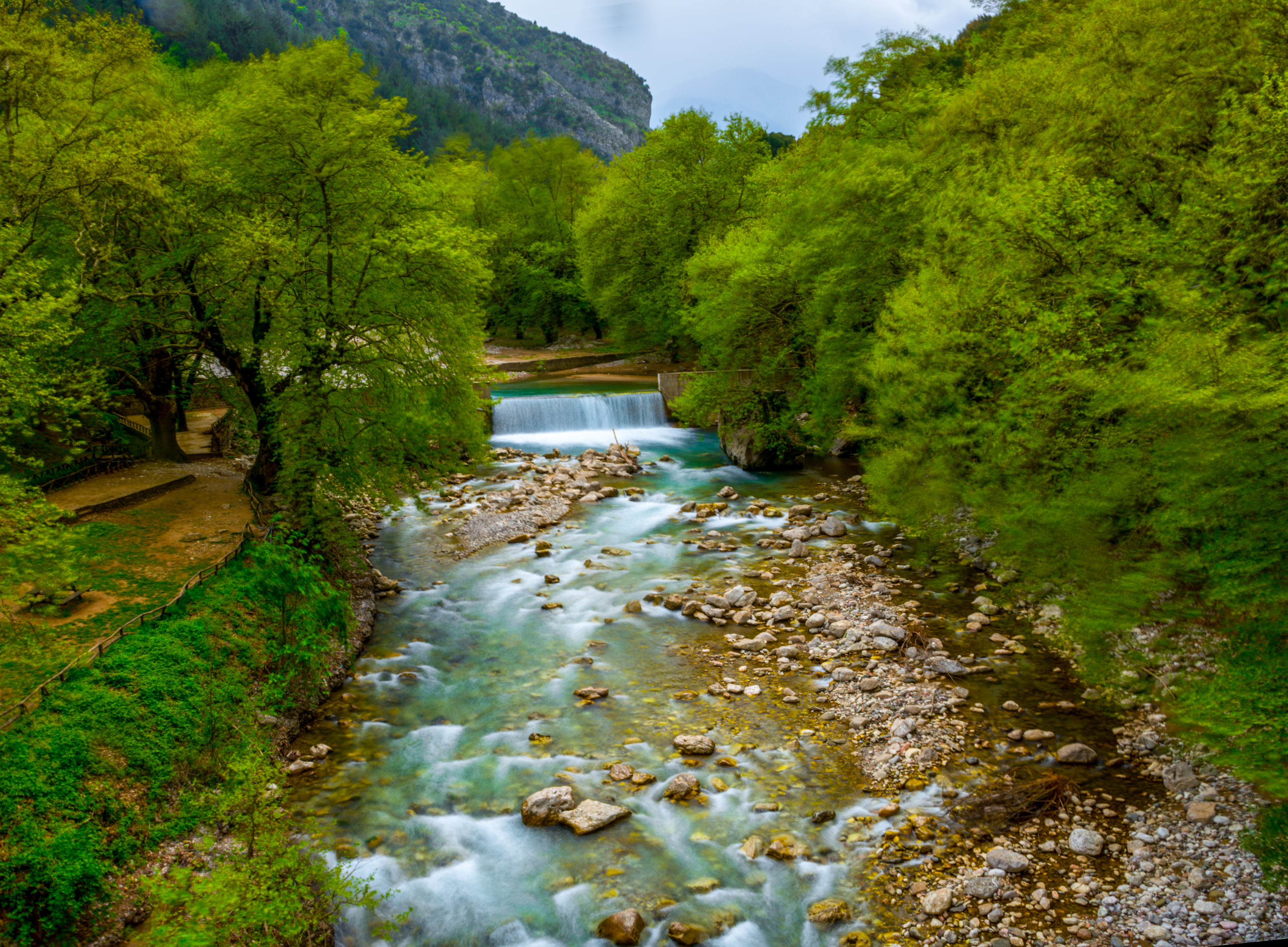 View of Portaikos River from the St. Vissarion Bridge This is a photography of Natura 2000 protected area with ID GR1440002